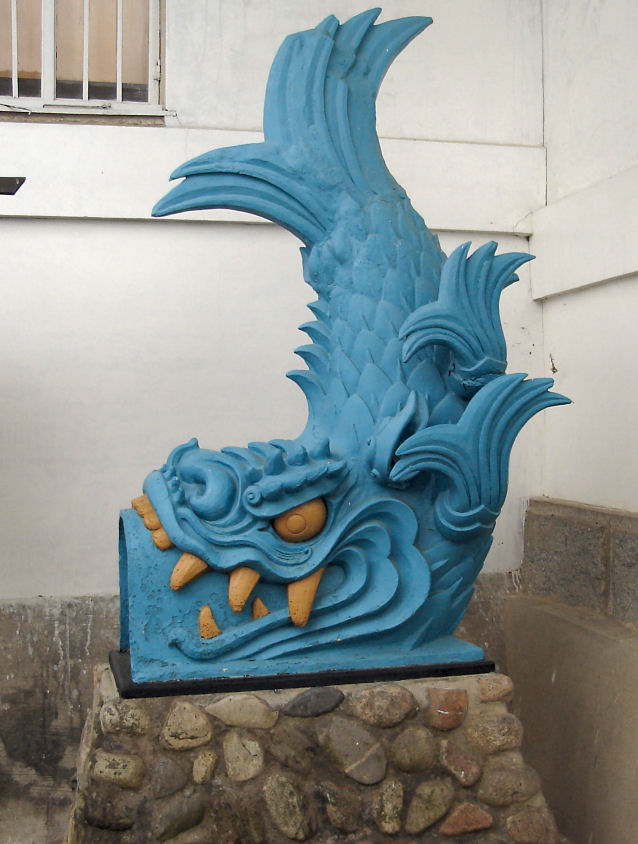 sculpture at Iga Ueno Castle, Japan